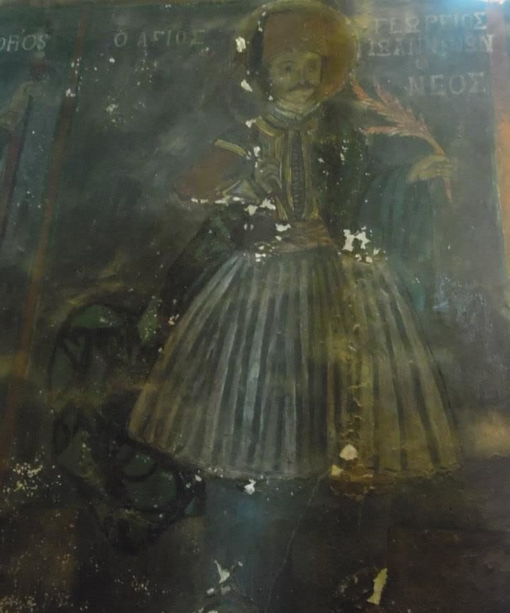 Saint George Monastery in Butkovo Fresco